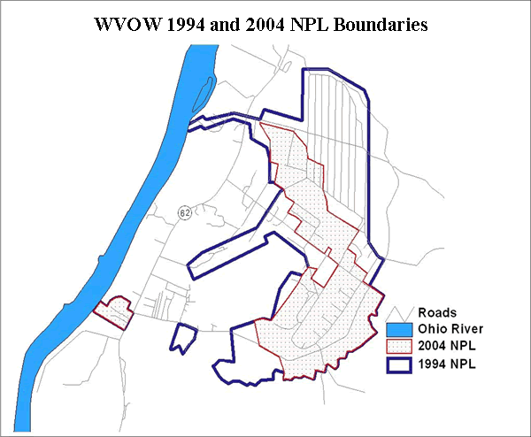 The map below shows the West Virginia Ordnance Works past and present National Priorities List (NPL) boundry. During 1994, 2,700 acres comprised the site NPL boundary. The current NPL boundary (as of 26 April 2004) comprises 1184 acres as a result of 512 acres being delisted during December 2002 and an additional 1004 acres being delisted during April 2004.